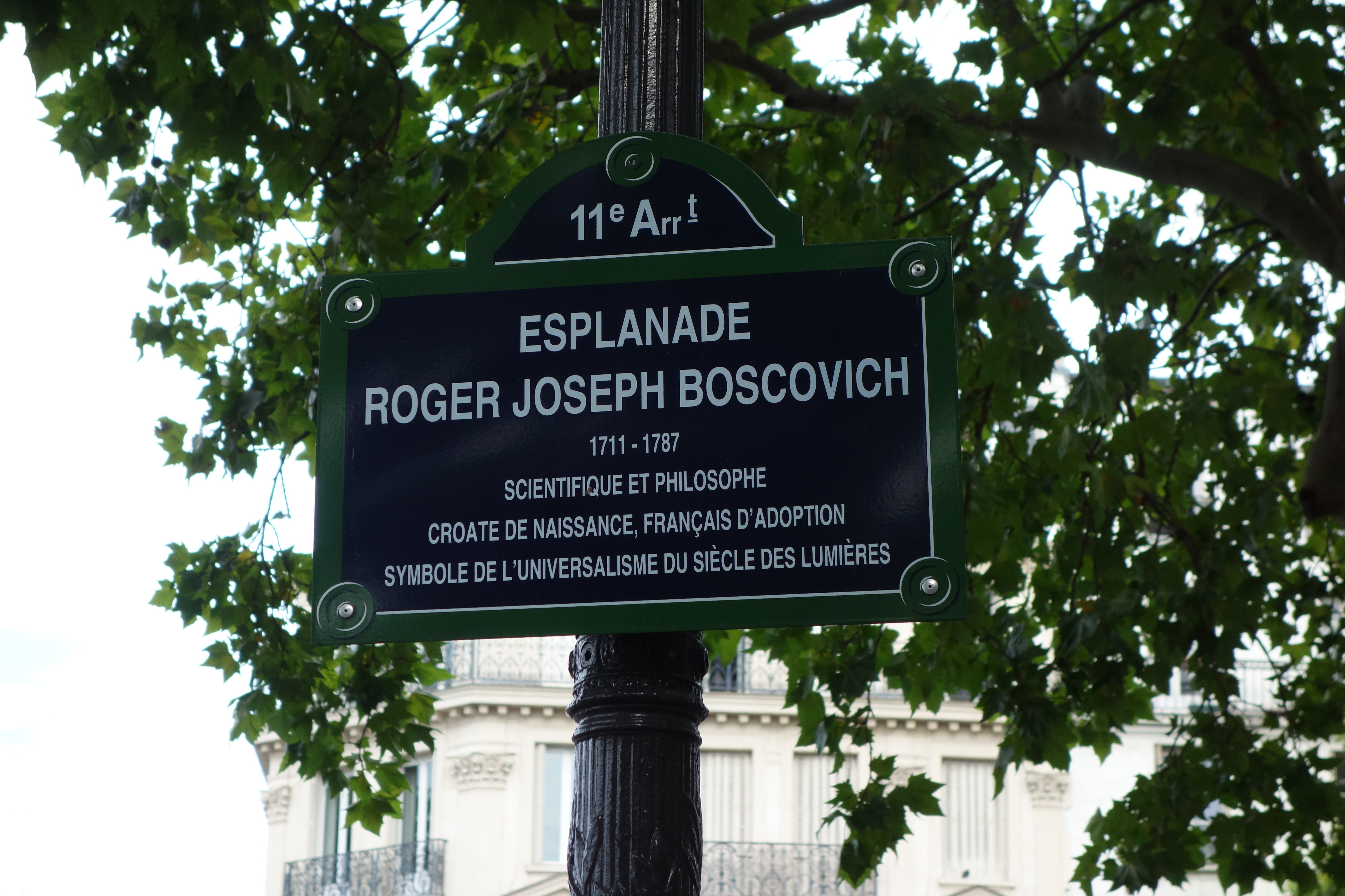 Esplanade Roger Joseph Boscovich in Paris